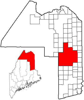 Adapted from U.S. Census Bureau maps (American FactFinder) and Wikipedia's ME county maps by Bumm13.